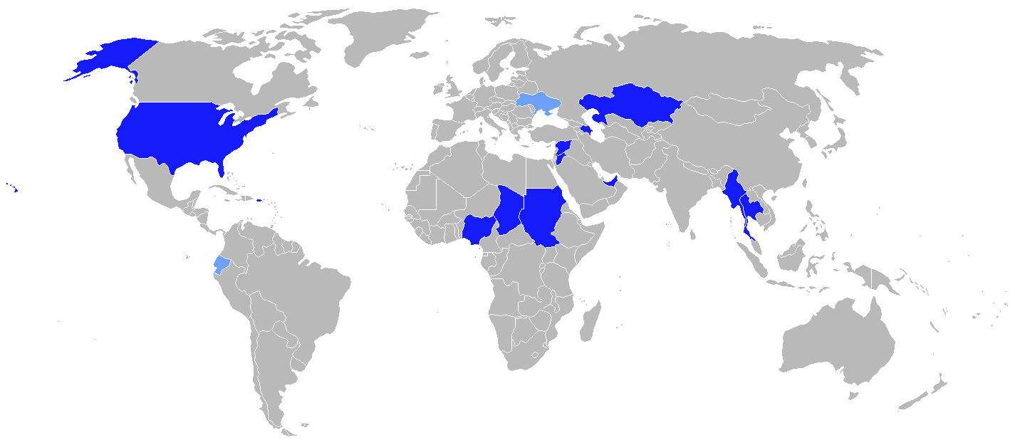 World operators of Ukrainian BTR-3. Dark blue - used/was purchased; light blue - delivery expected